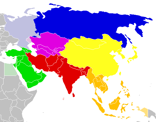 Map: Asia (location), subregions as delineated by United Nations geographic classification scheme, except *: Northern Asia* Russia in Eastern Europe Central Asia territories geographically, wholly or partially, in Eastern Europe Western Asia territories geographically, wholly or partially, in Eastern Europe, Southern Europe, and Northern Africa Southern Asia Eastern Asia Southeastern Asia territories geographically, wholly or partially, in Melanesia (Oceania)